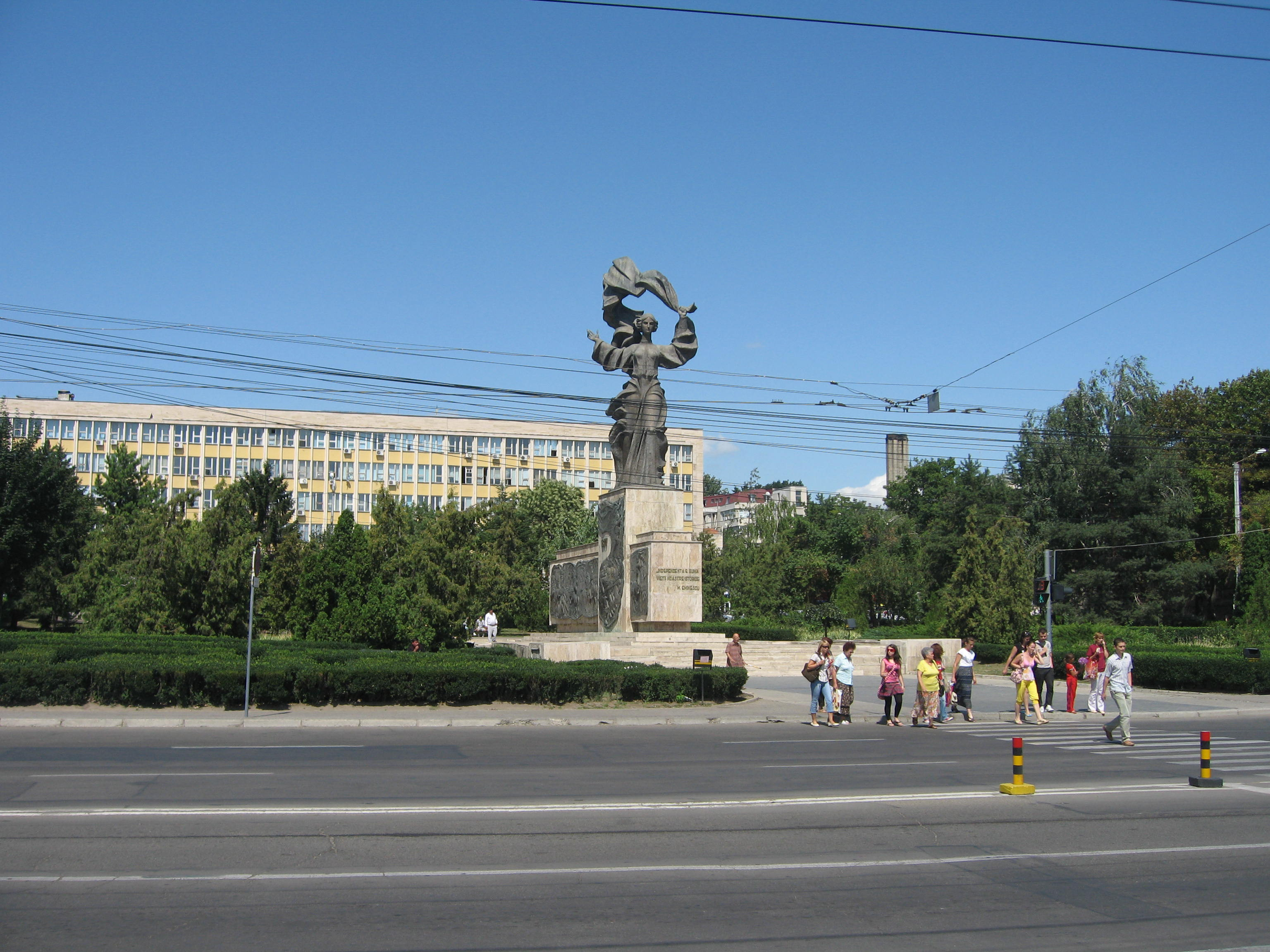 Statuia Independenţei din Iaşi